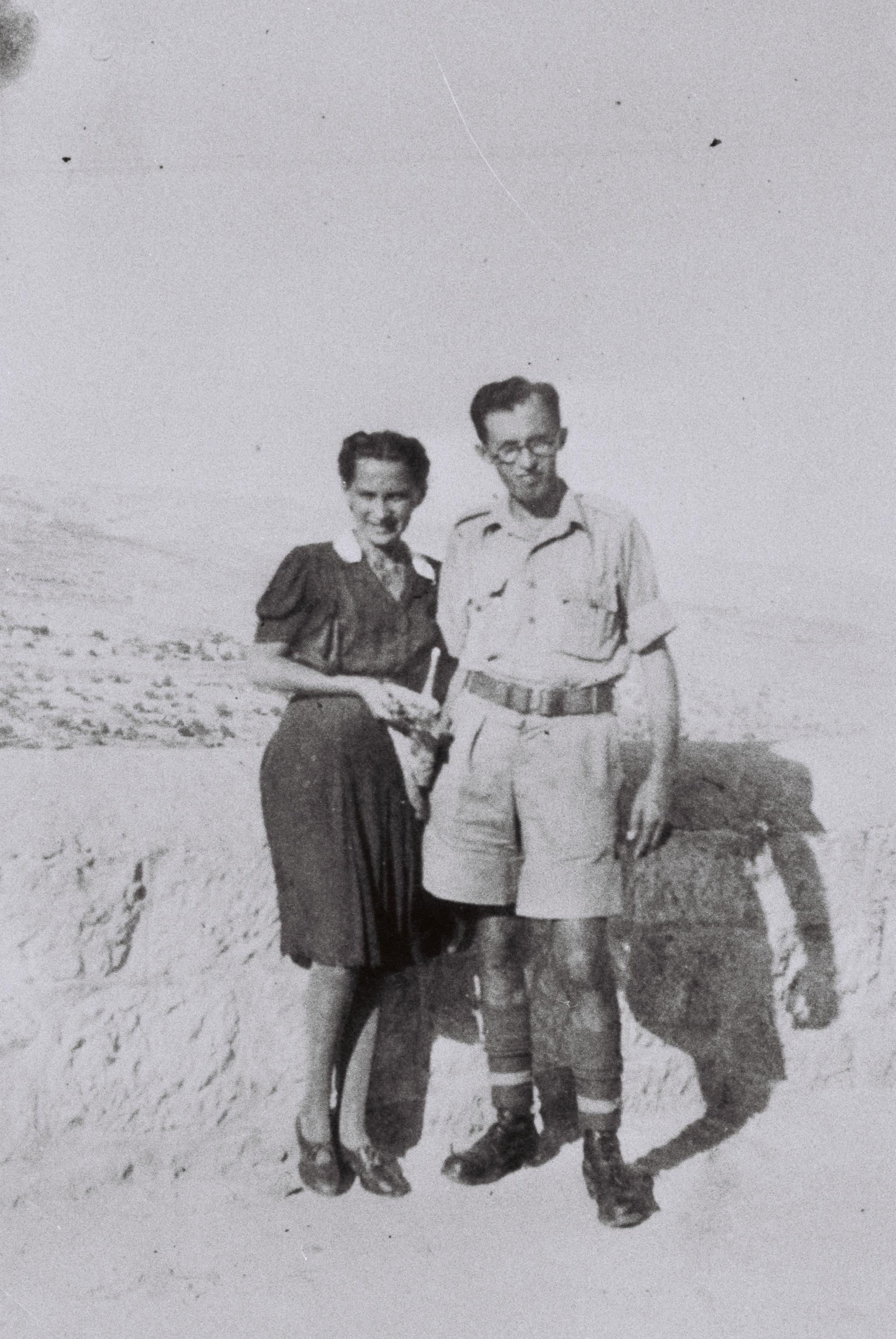 MENAHEM AND ALIZA BEGIN IN PALESTINE. מנחם ועליזה בגין בפלשתינה.